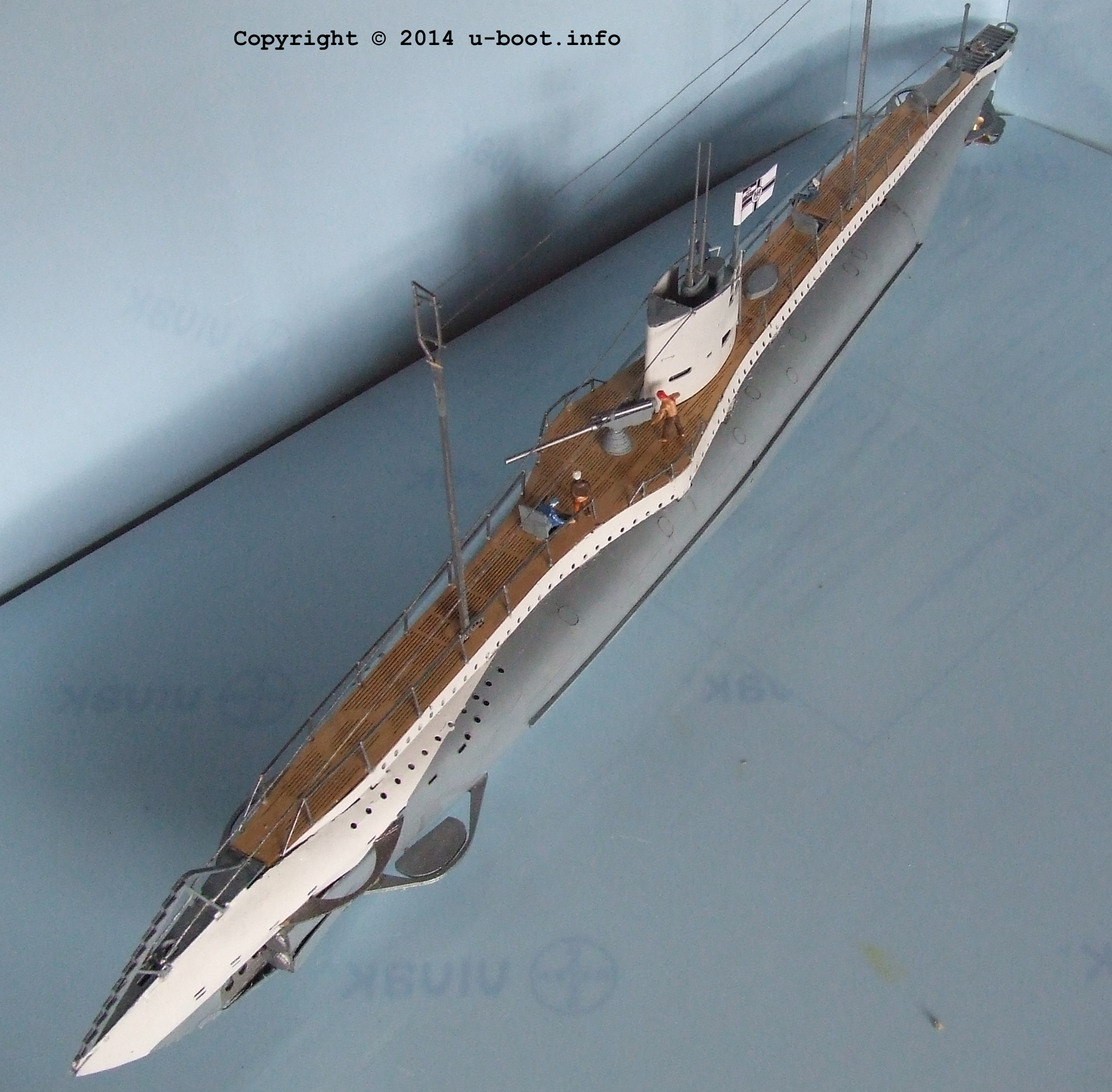 UB III submarine model 1